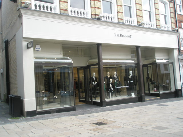 LK Bennet in Winchester High Street